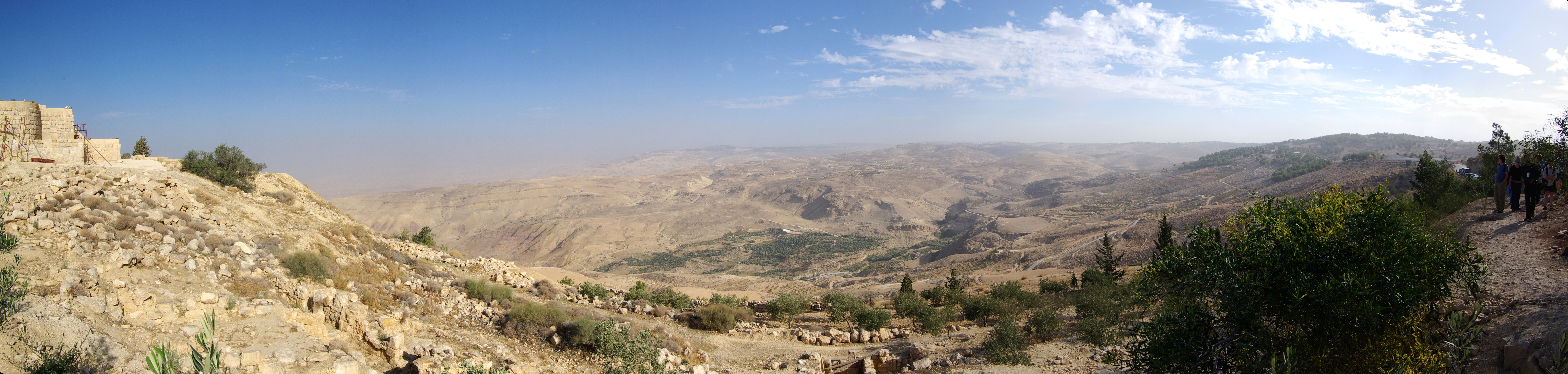 Mount Nebo, view to north east